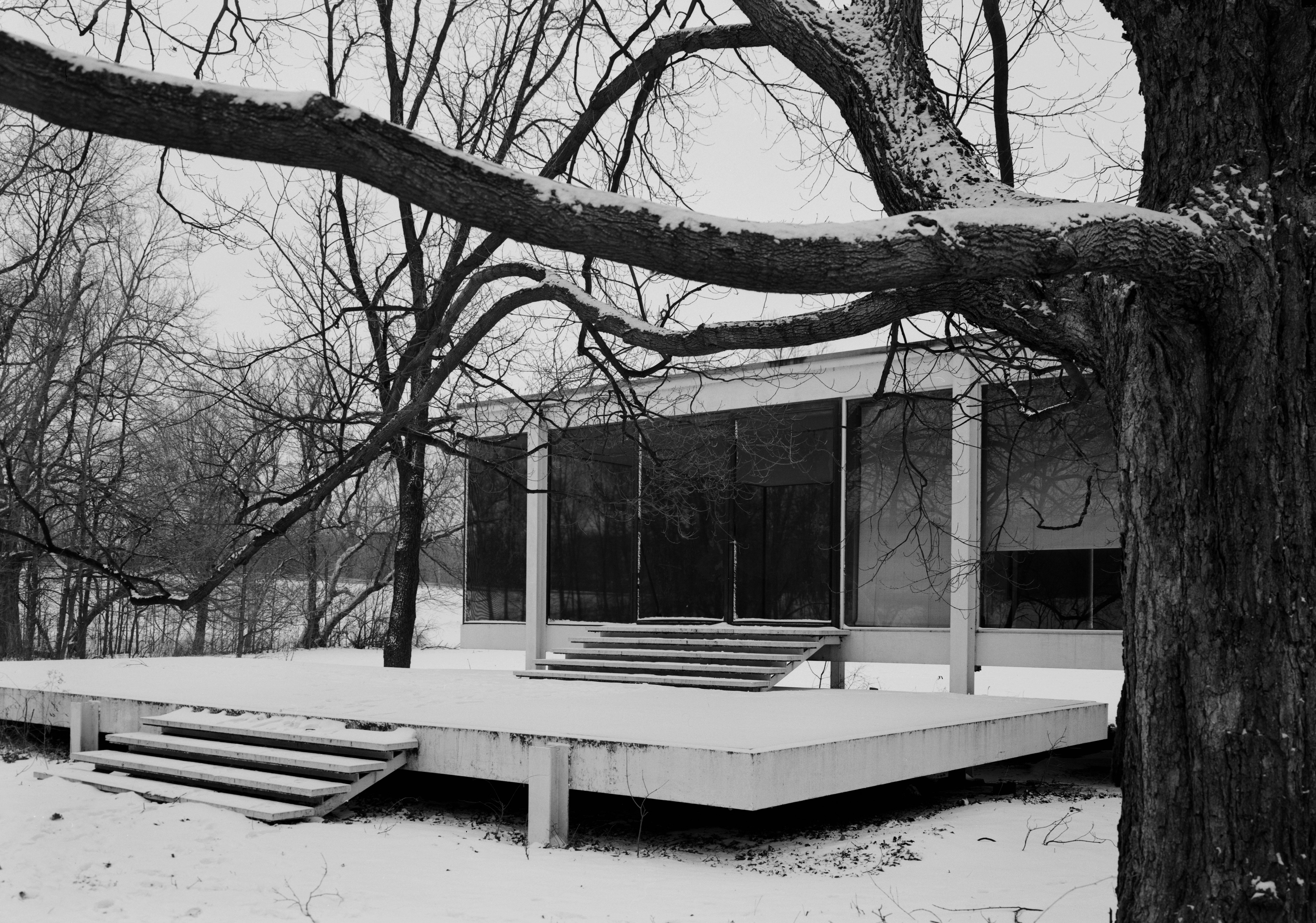 Edith Farnsworth House, Fox River & Milbrook Roads, Plano vicinity, Kendall County, Illinois - south elevation detail of entrance. Designed by Ludwig Mies van der Rohe